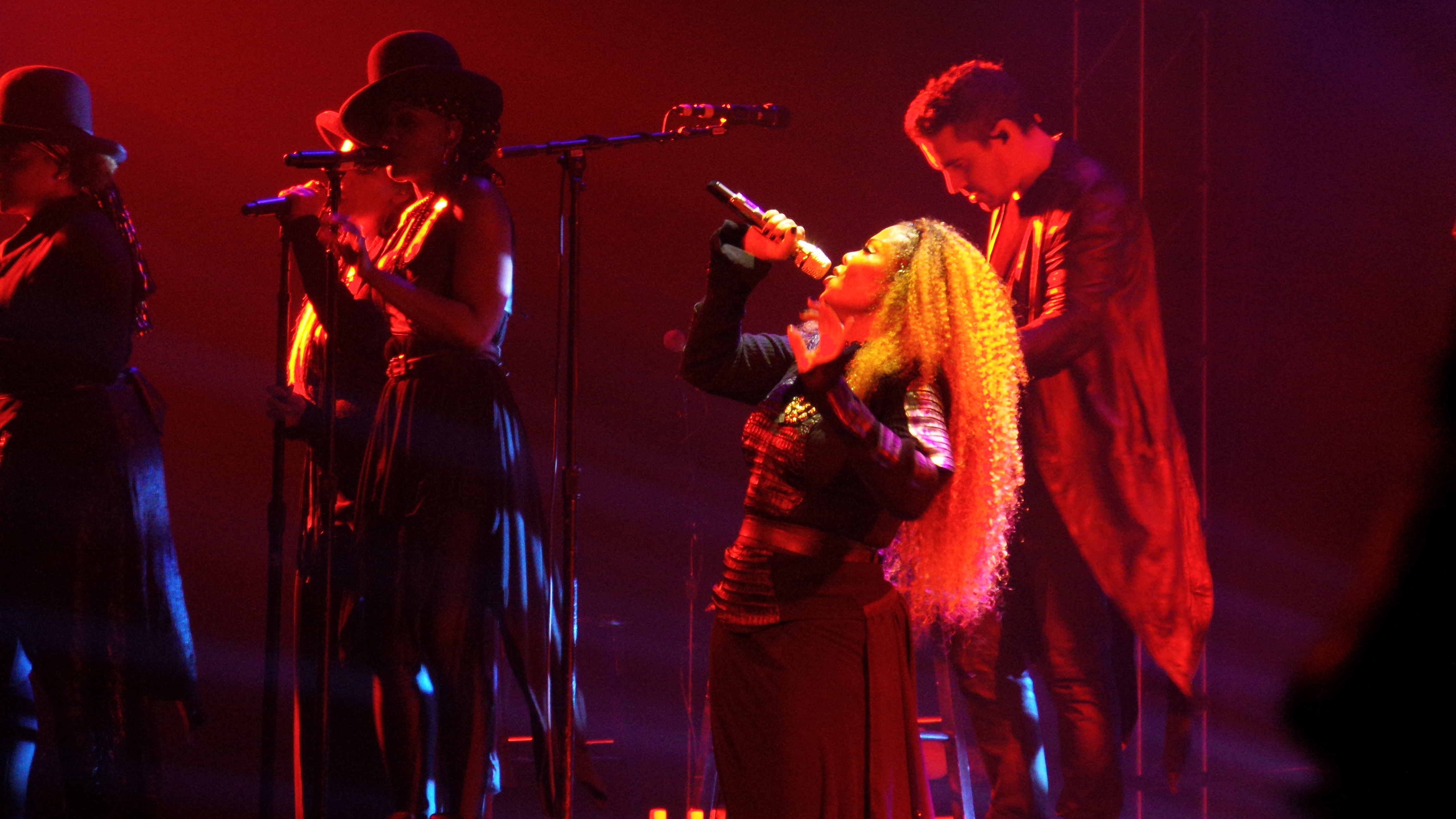 Janet Jackson Unbreakable Tour, Honolulu, Hawaii 2015